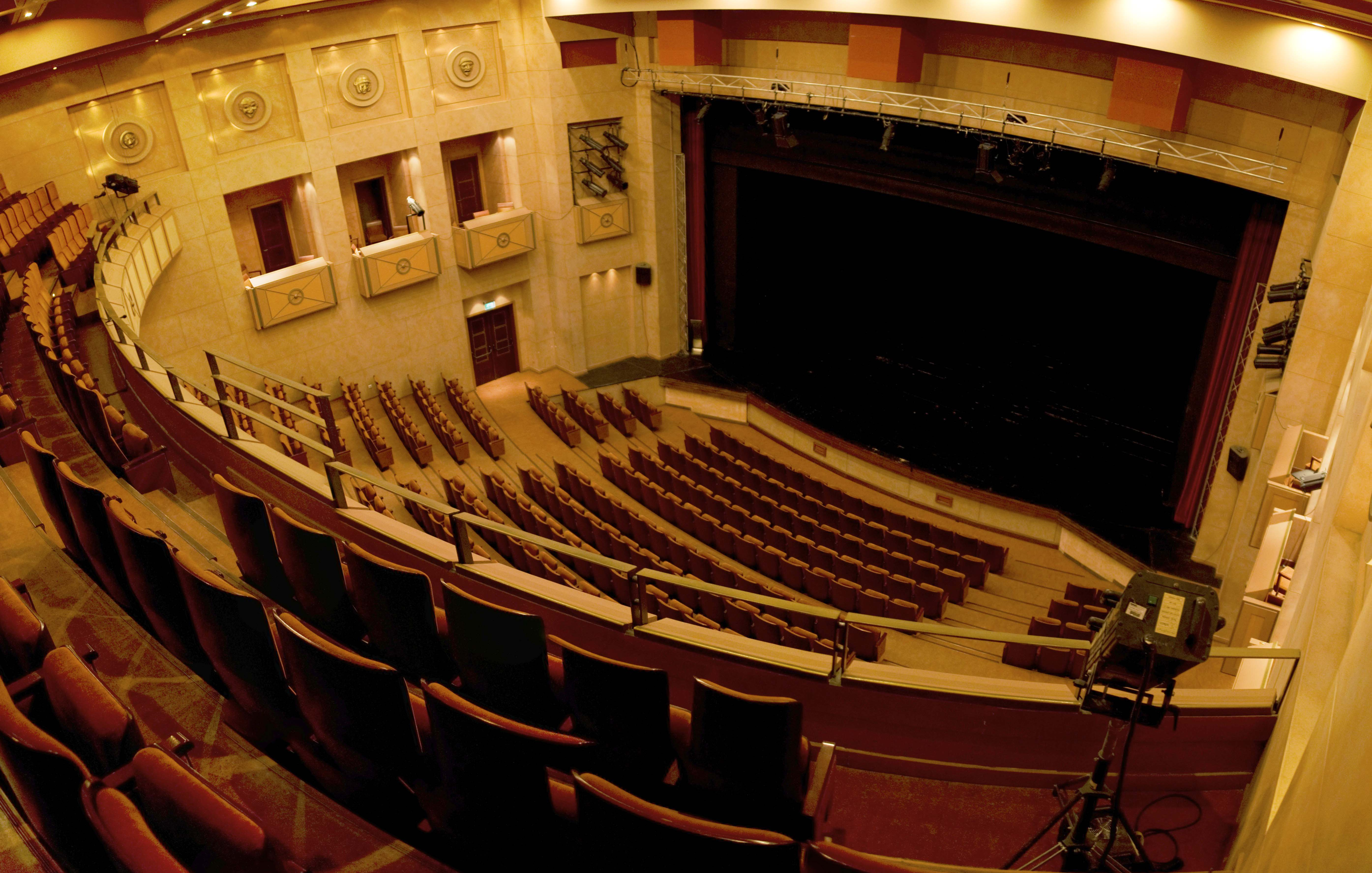 Η Σκηνή Σωκράτης Καραντινός είναι μία από τις δύο σκηνές του θεάτρου της Μονής Λαζαριστών.